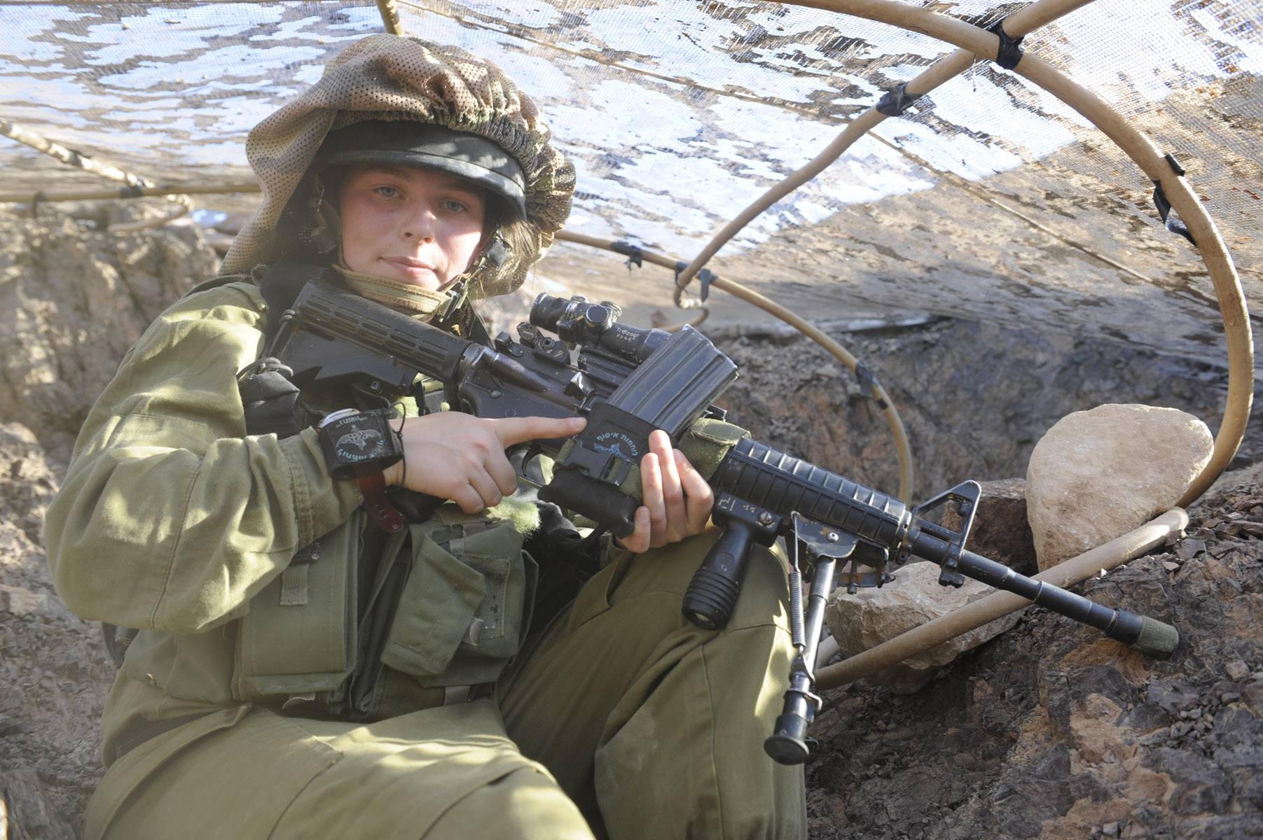 November 2011 Female combat soldiers of the field intelligence company "Nachshol" are stationed along the southern Israeli border. Due to the increased tension in the area, a unique exercise was conducted in the beginning of November, practicing clashes with terrorists, storming at targets, and high-level camouflage, while confronted with mock explosives simulating real bombs. Click here to take a look into the life of female field intelligence combat soldiers The Israel Defense Forces Facebook page The Israel Defense Forces blog Follow us on Twitter